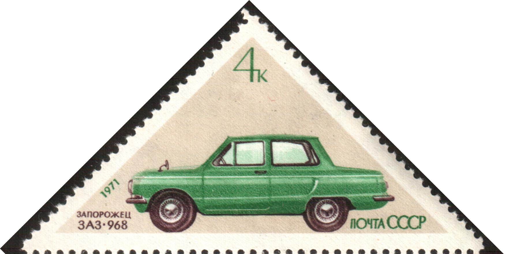 USSR stampː Zaporozhets ZAZ-968 Subcompact Car. Seriesː Soviet Motor Vehicles